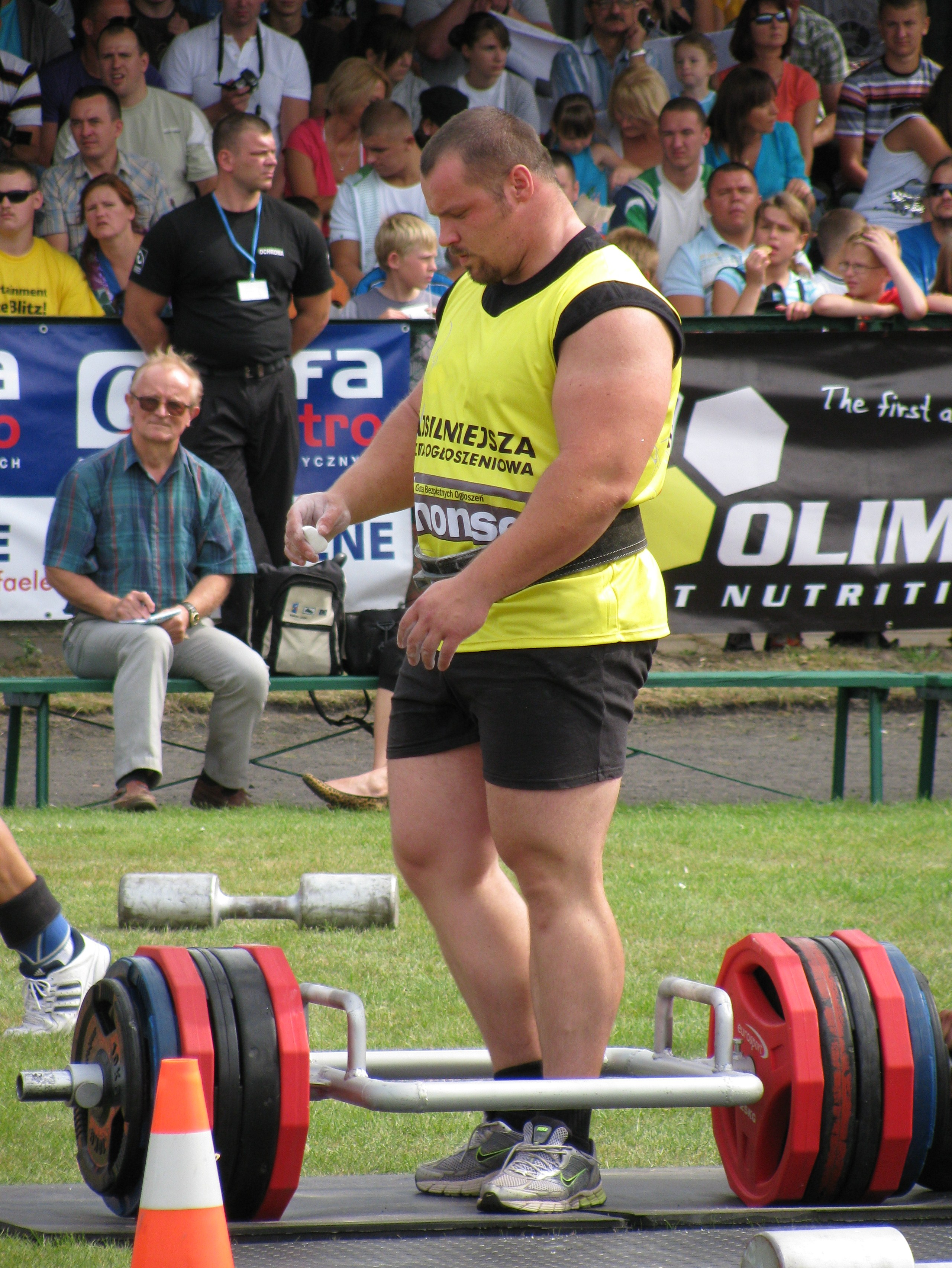 Michal Szymerowski - a strength athlete from Poland